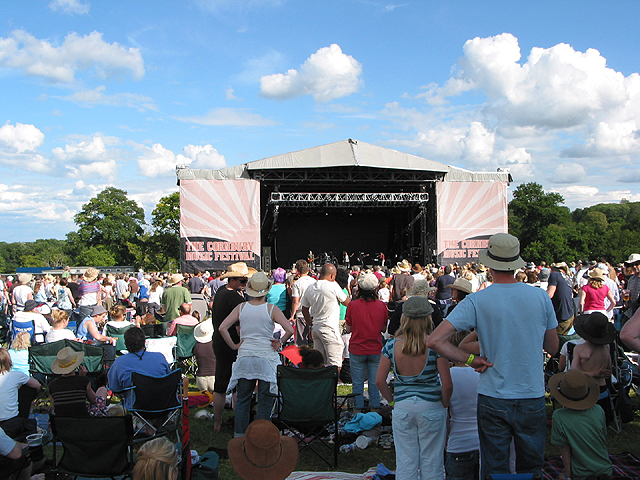 Crowds at the Cornbury Music Festival Now in its 4th year. Suzanne Vega on the main stage.